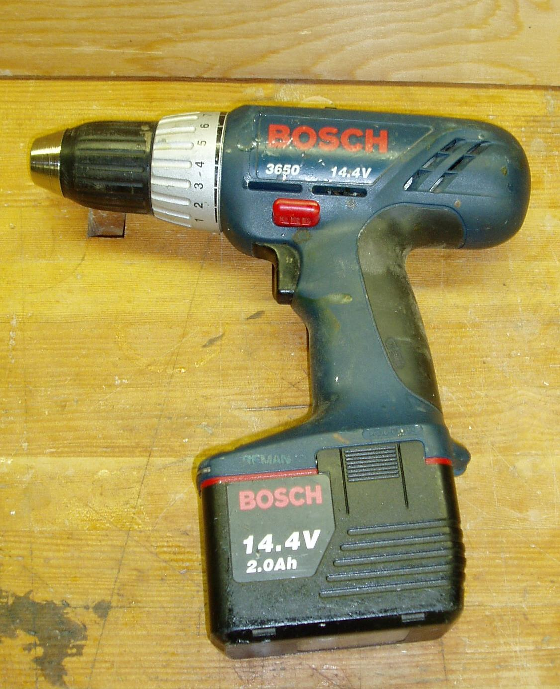 Picture of battery operated cordless Bosch 3650 drill taken 18 September, 2005 by Luigi Zanasi (myself) on my workbench using a Olympus digital camera.